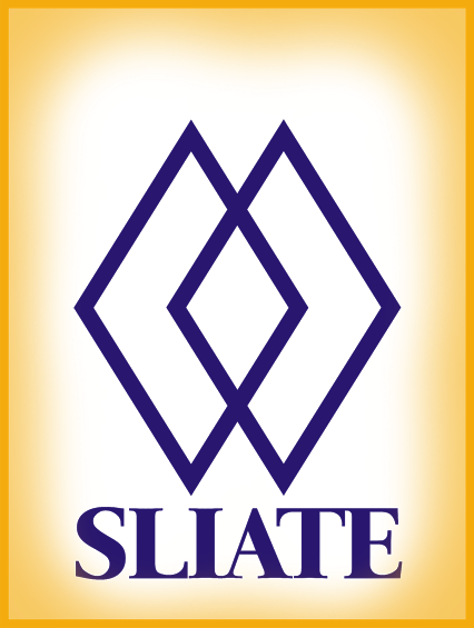 SLIATE Logo